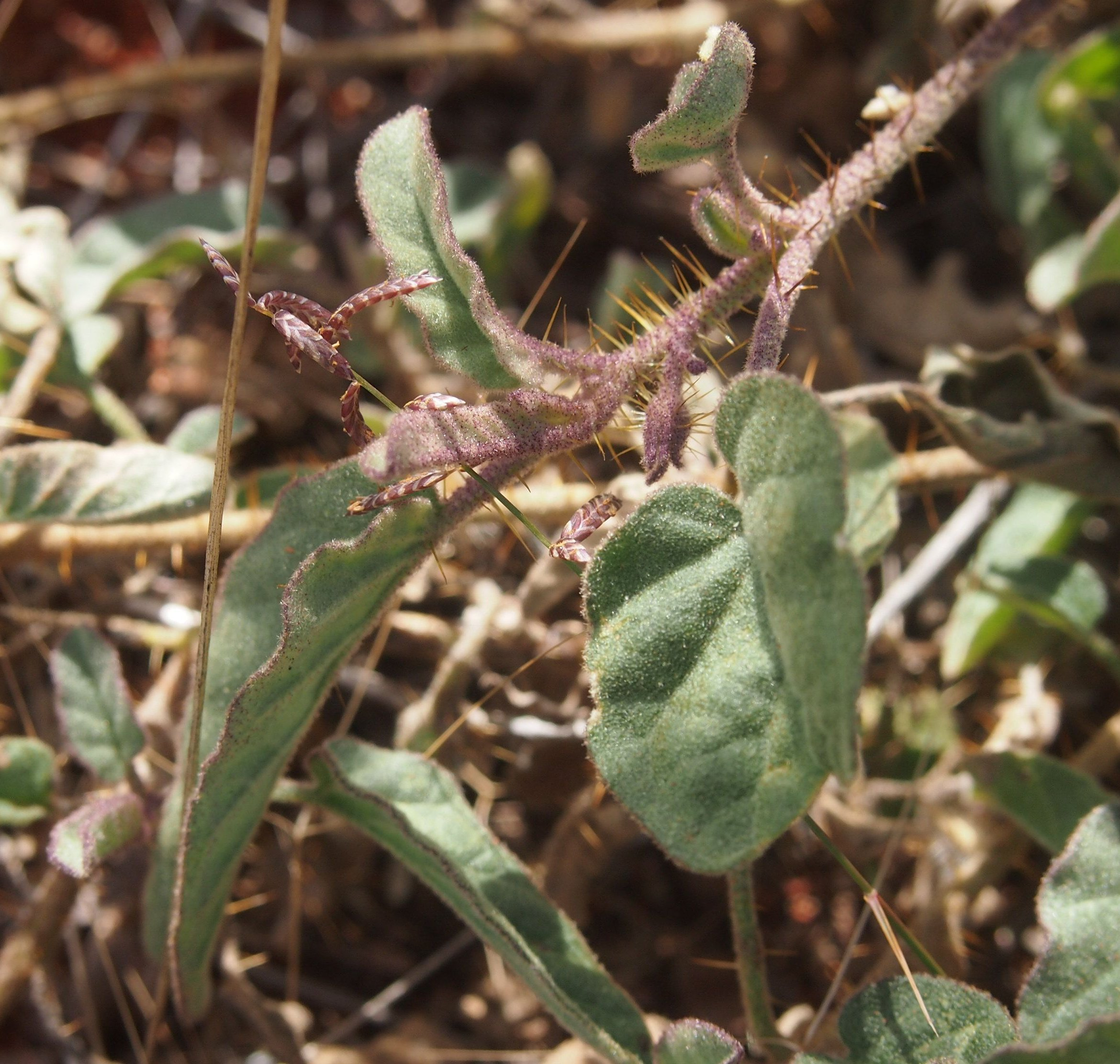 Solanum cleistogamum foliage